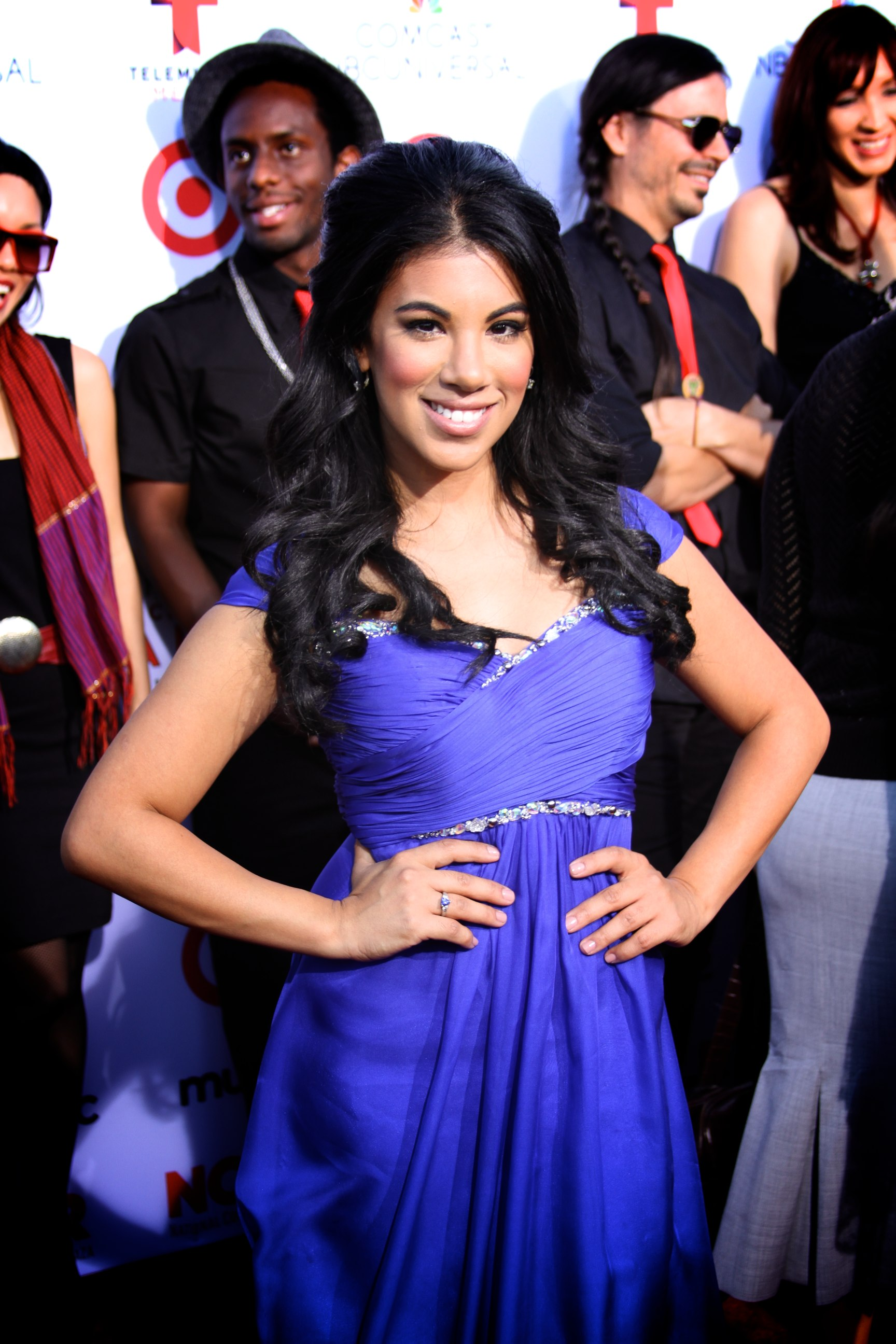 Chrissie Fit at the 2013 Alma Awards